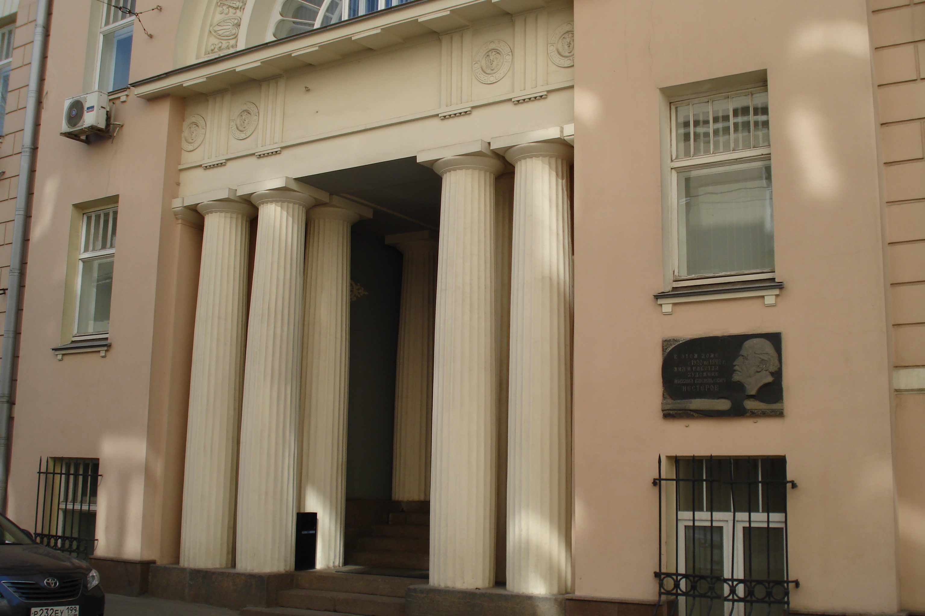 House in Moscow (Sivtsev Vrazhek 43) where the famous Russian painter Mikhail Nesterov lived between 1920 and 1842